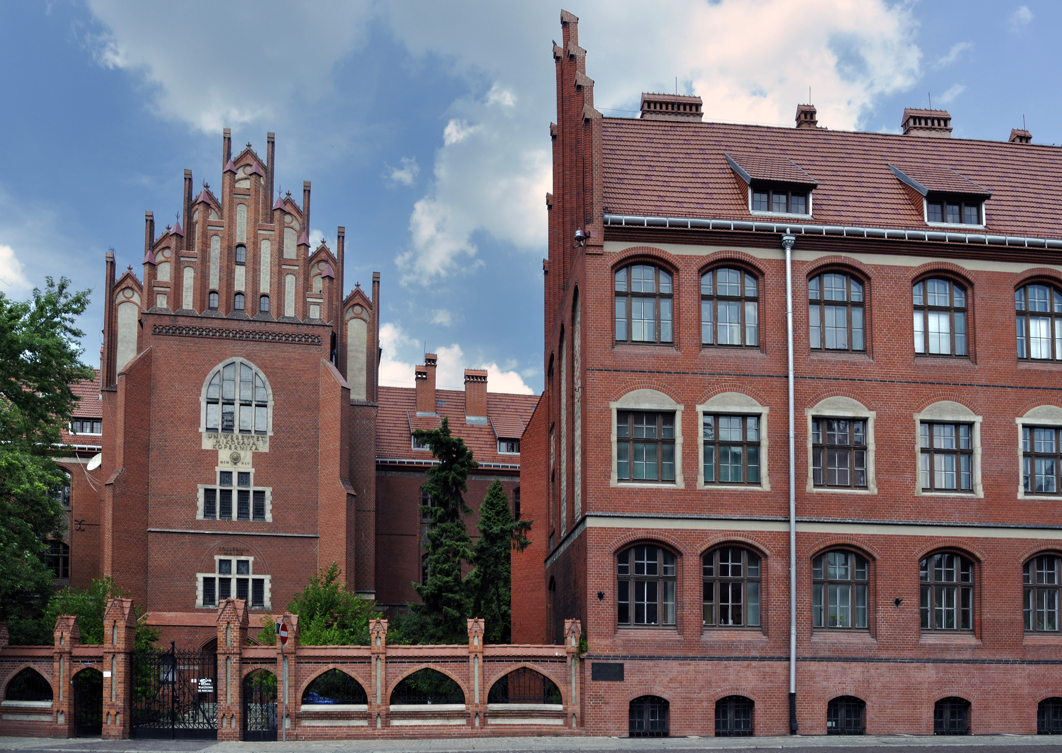 Picture taken in Toruń after Wikimania 2010 conference.